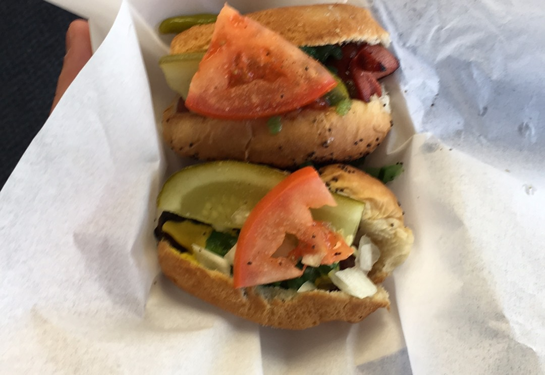 Two Trump Footlongs from The Wieners Circle.